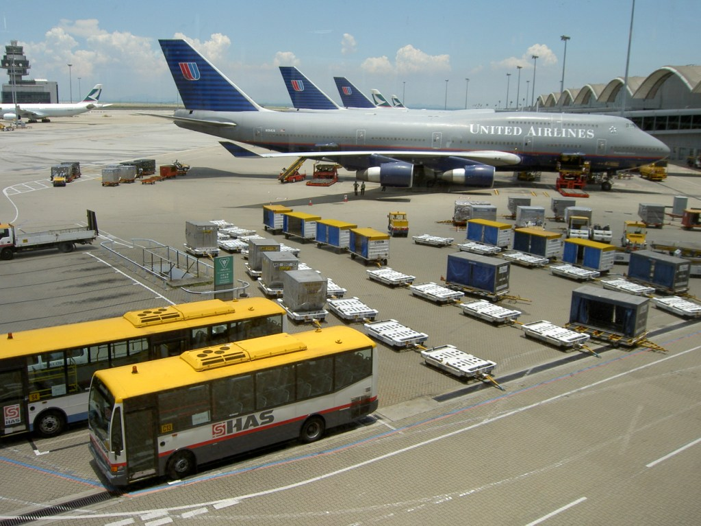 Hong Kong International Airport Passenger Terminal Building Apron